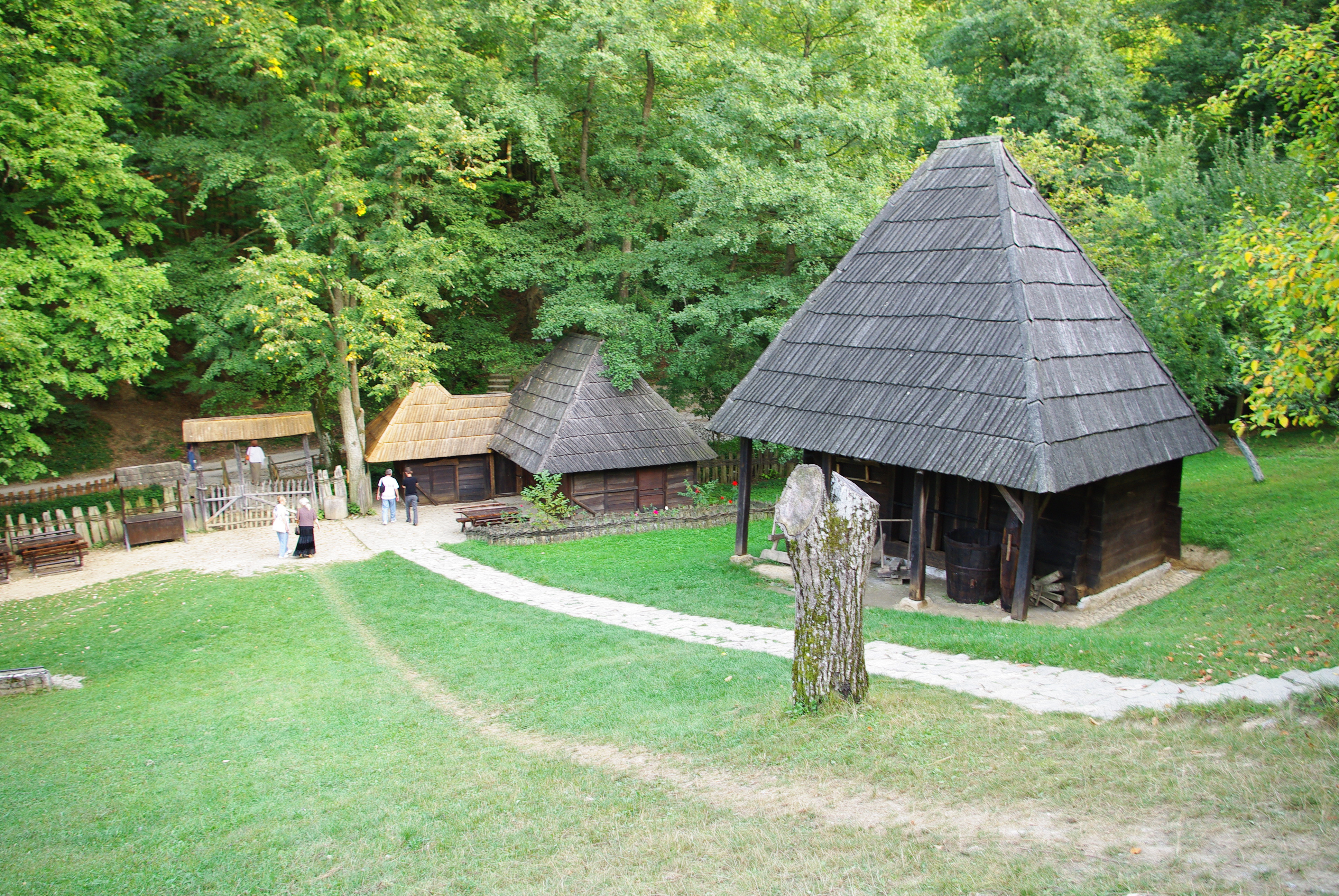 Court-yard in front of the Vuk Karadjic's house, Trsic, Loznica, Serbia.